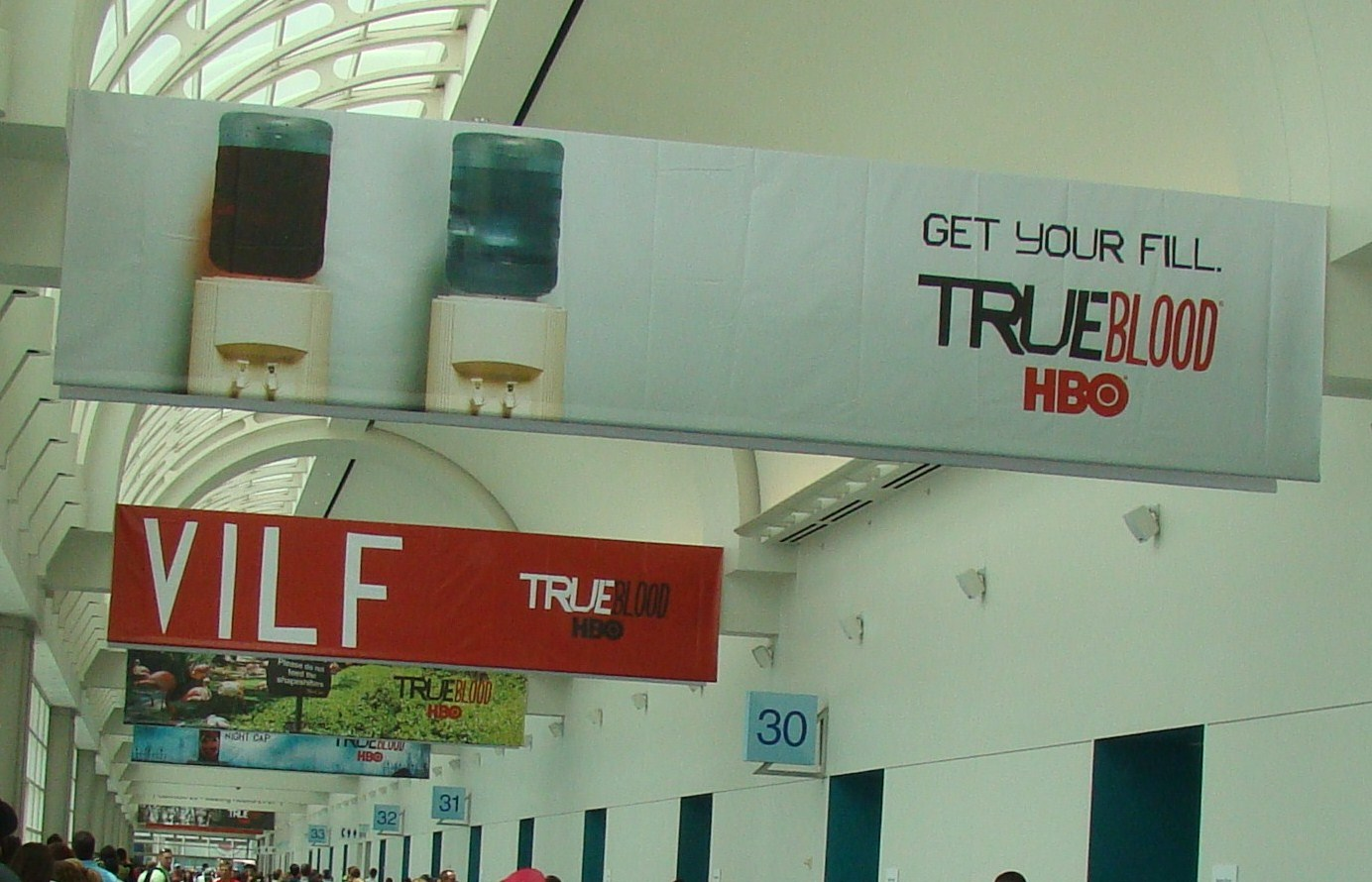 Different ones, all the way down the Ballroom 20 queue corridor.